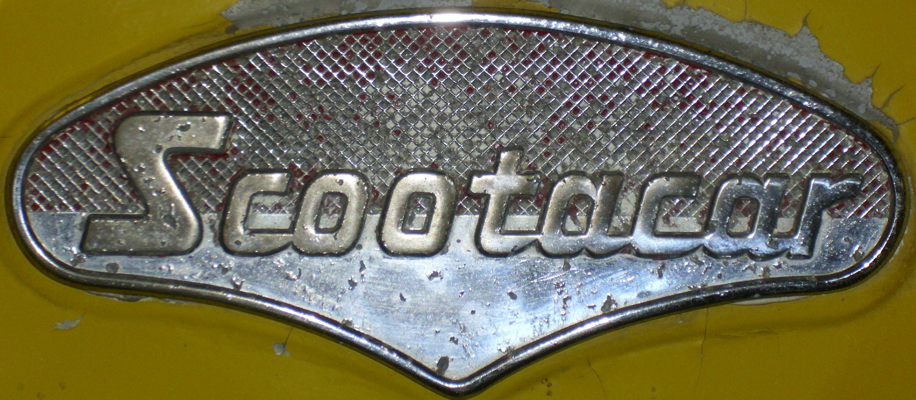 Emblem Scootacar